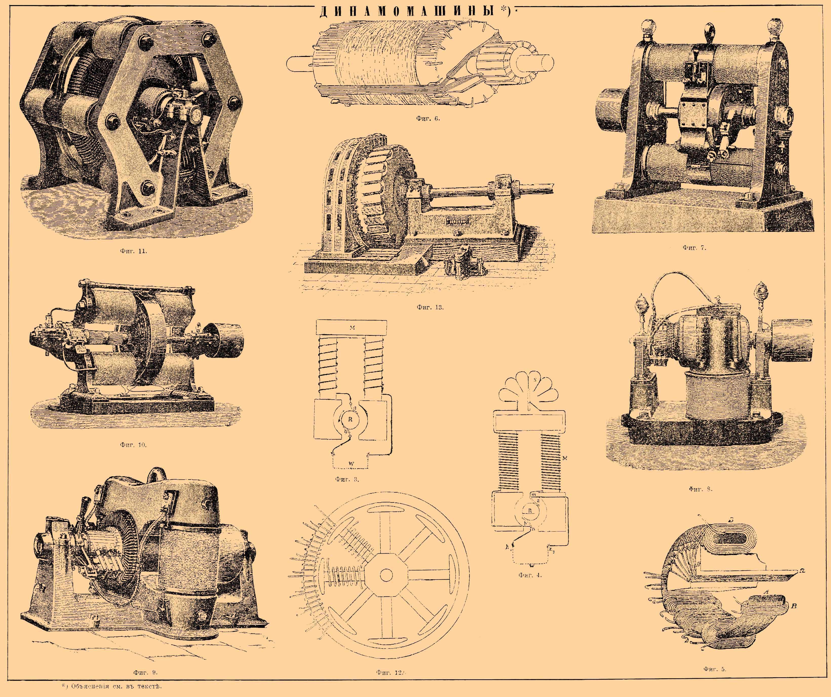 Illustration from Brockhaus and Efron Encyclopedic Dictionary (1890—1907)